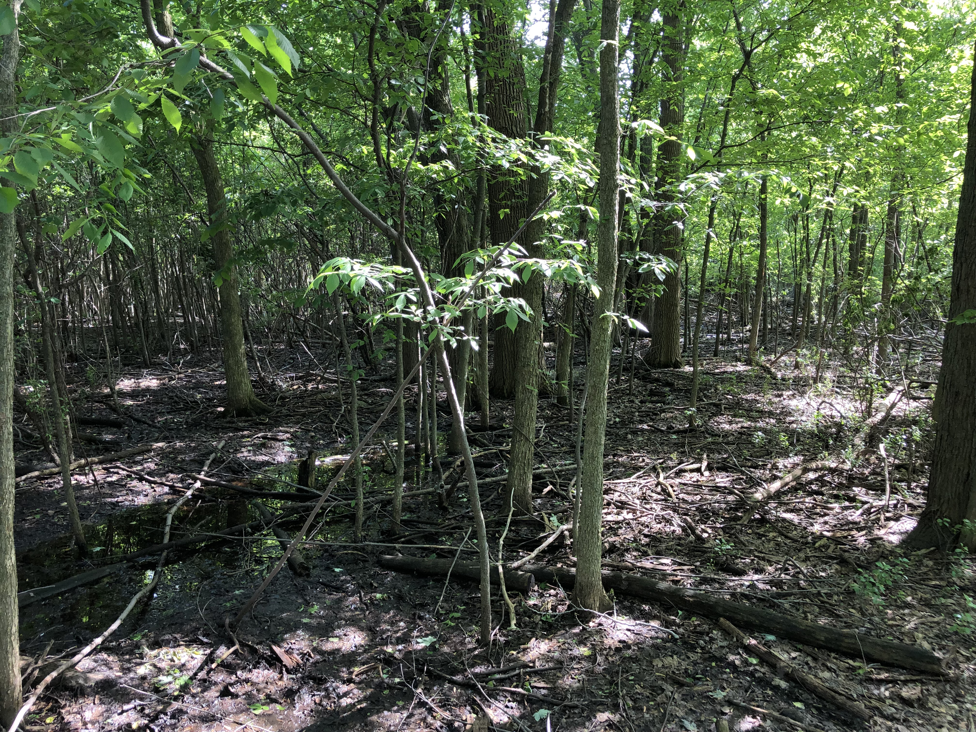 A preserved section of the Great Black Swamp off the Slippery Elm trail.